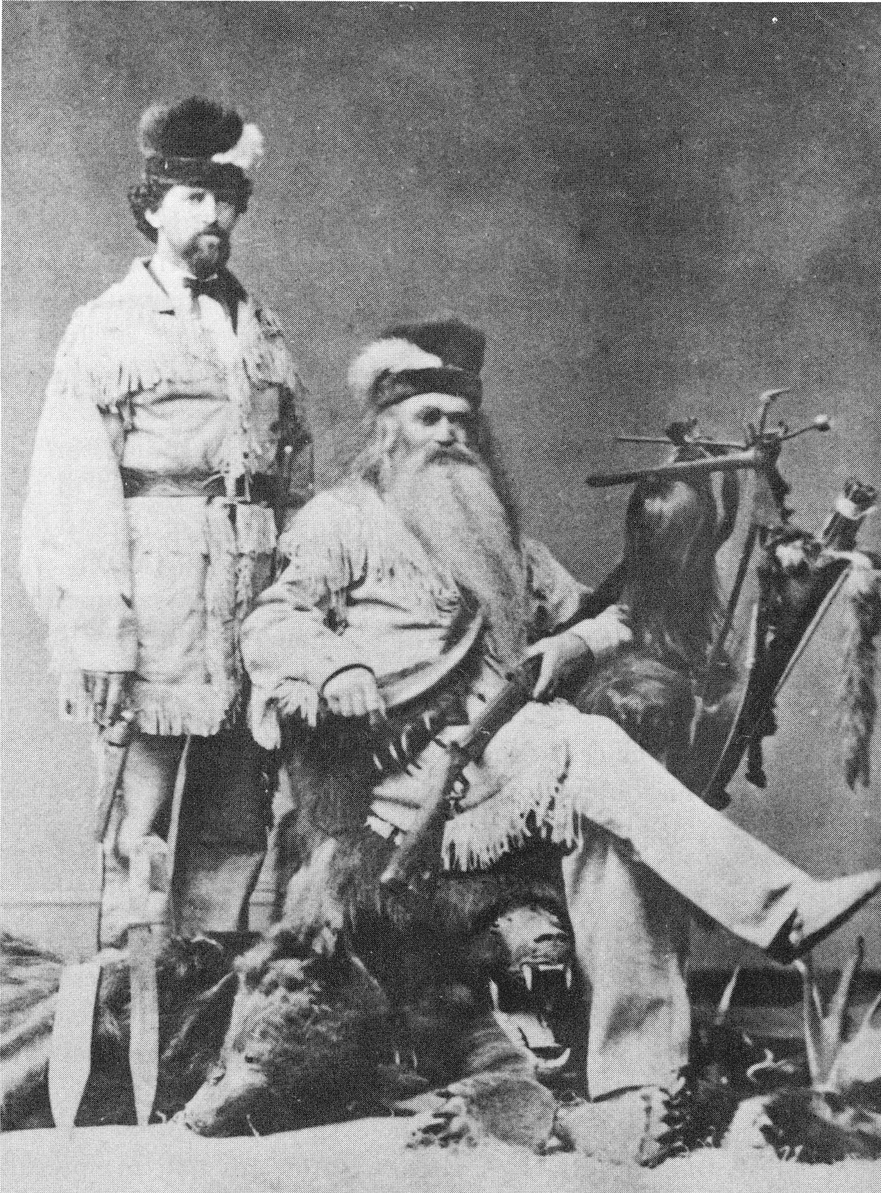 Photo or etching of Seth Kinman (died 1888) or of his famous chairs (last photo 1893)